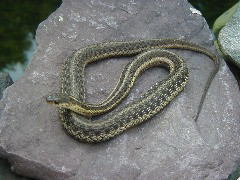 A young garter snake sunning itself on a rock.